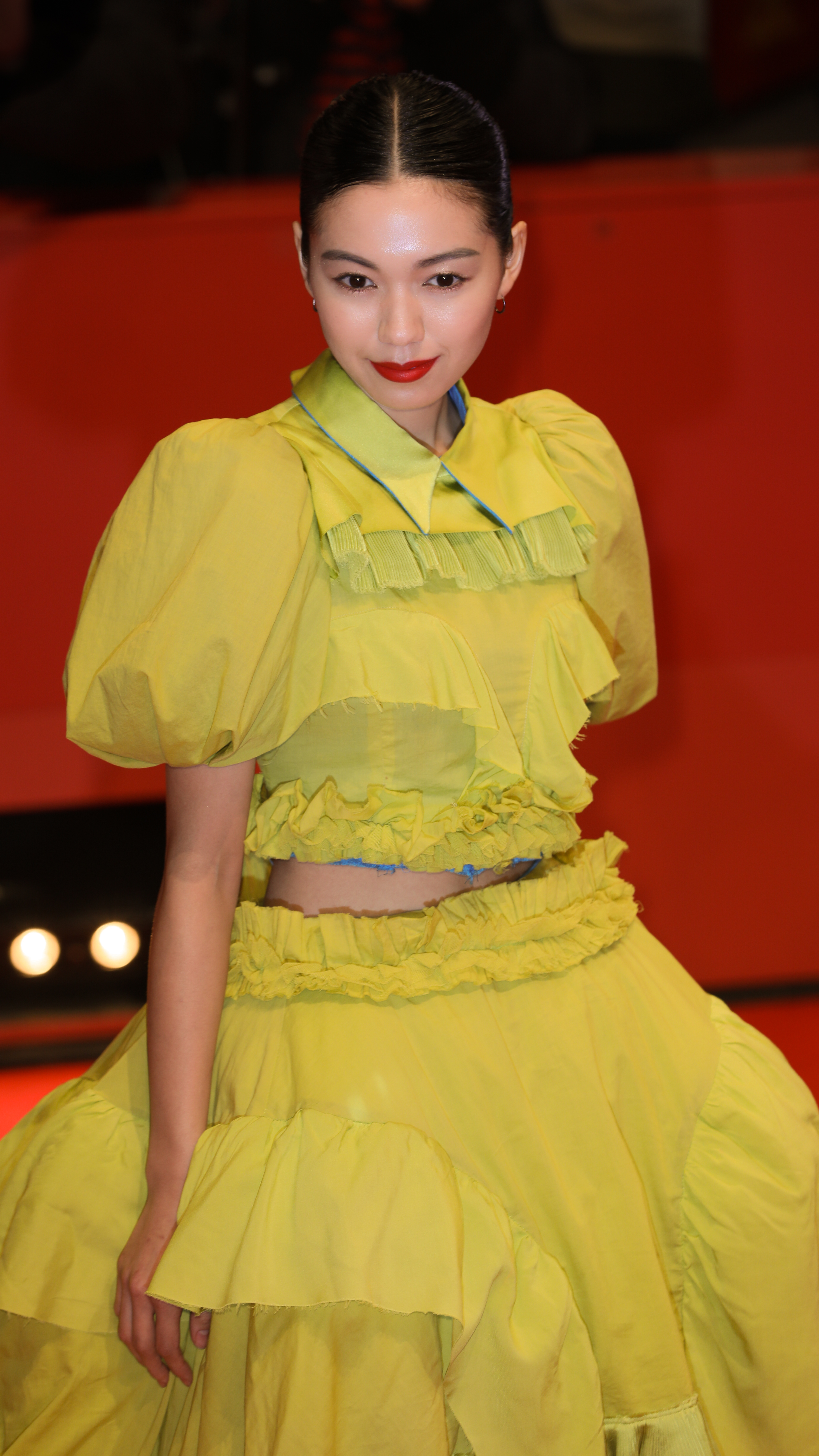 The Japaneese actress Fumi Nikaidō at the opening ceremenony of the Berlinale 2018